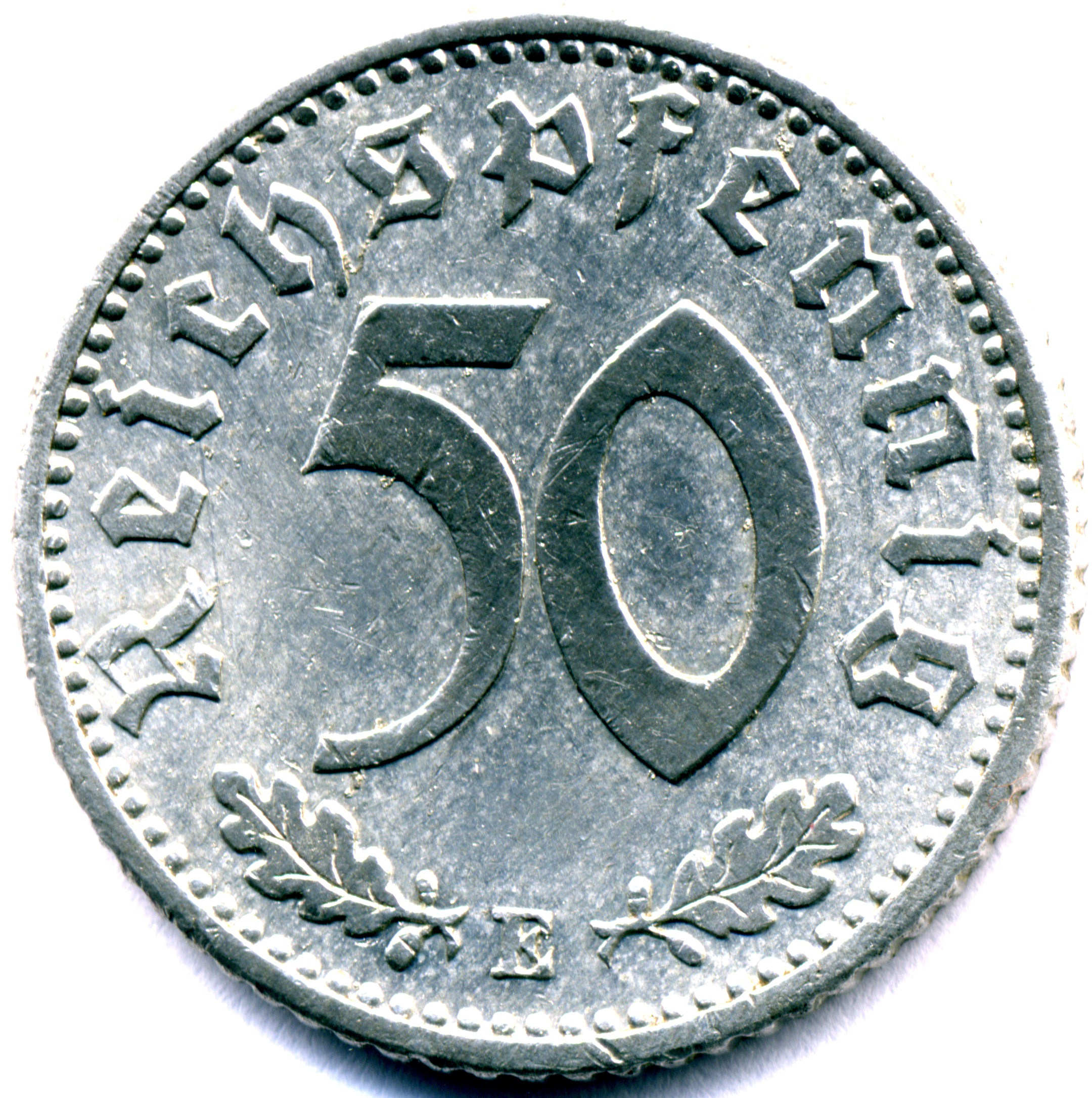 Nazi 50 Reichspfenning coin, reverse with value and mint mark